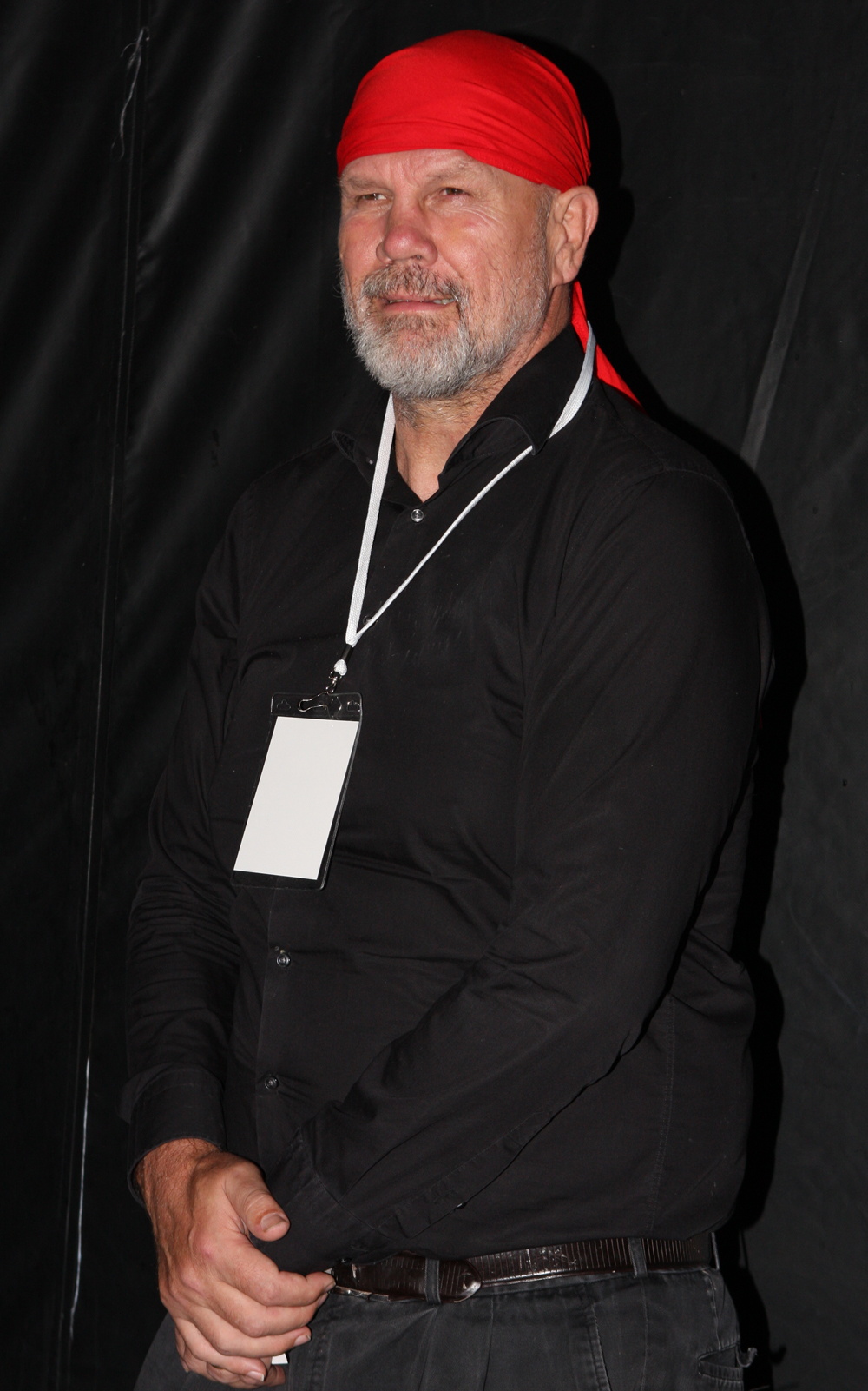 Peter FitzSimons (born 1961), Australian author, former rugby union player; Eva Rinaldi Photography